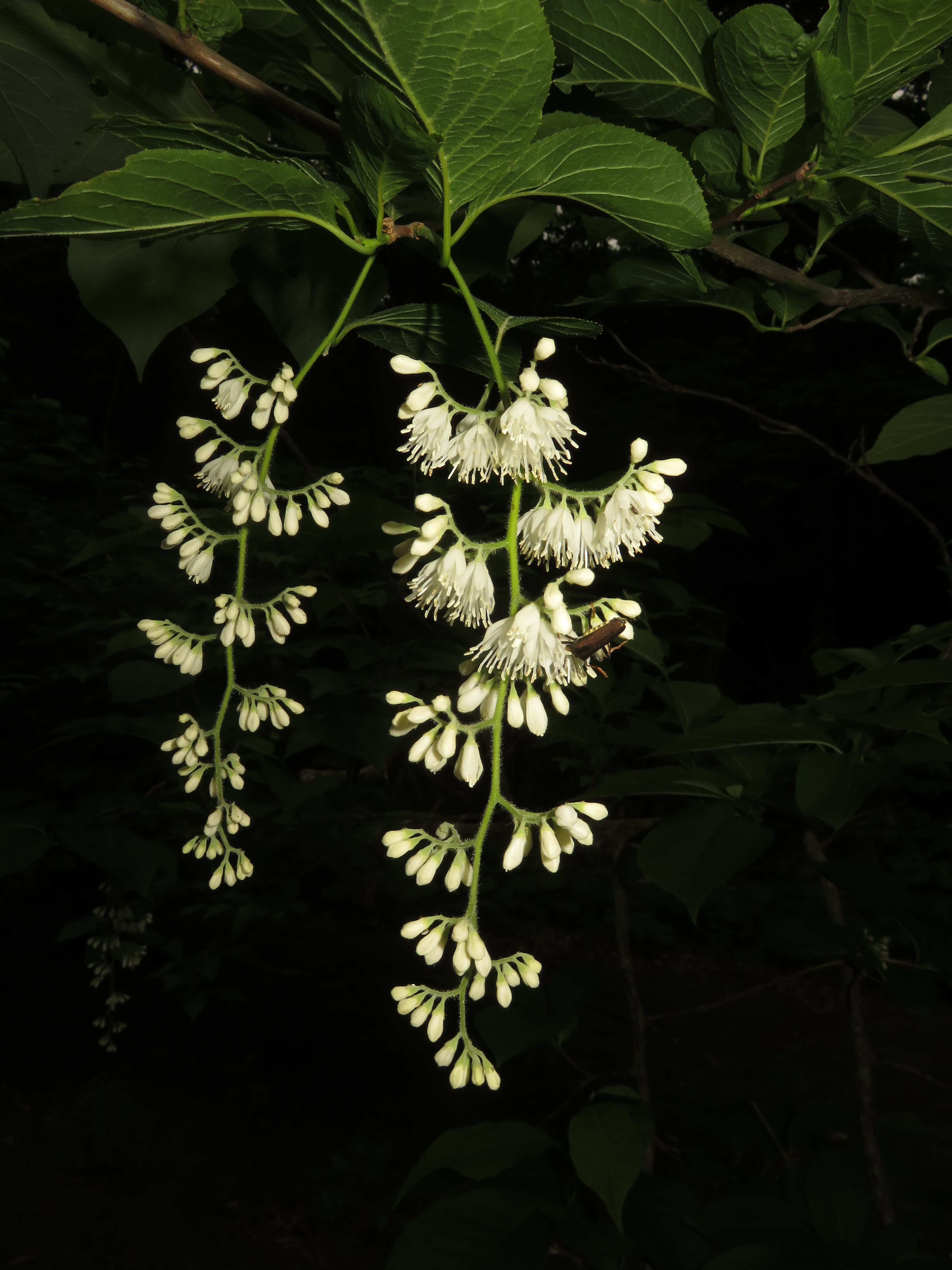 Pterostyrax hispidus, Hama-dori area, Fukushima pref., Japan